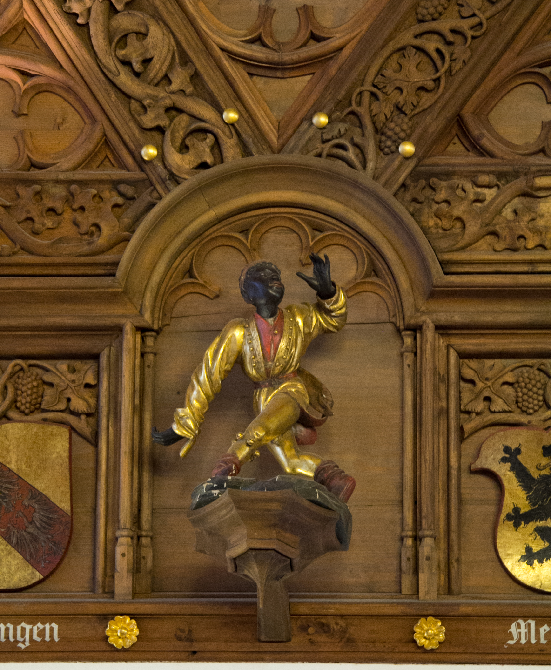 Copies of figures of morisco dancers in the old town hall of munich. They were created by Erasmus Grasser.